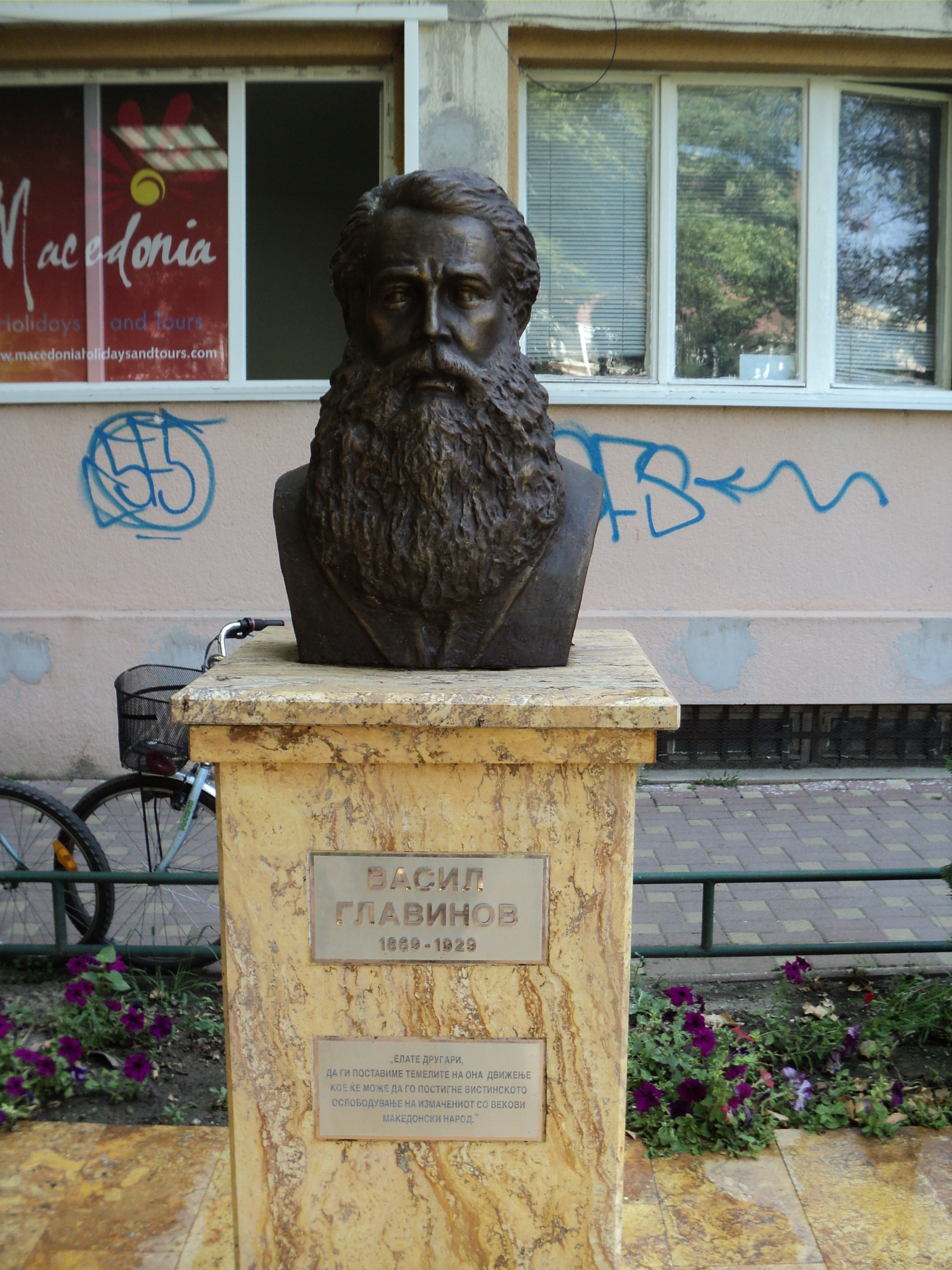 Bust of Macedonian and Bulgarian socialist Vasil Glavinov (1869-1929) in the center of Skopje.